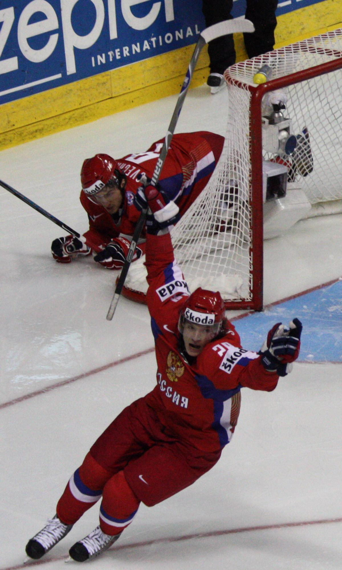 Alexander Semin of Russia scores the first goal of the gold-medal game against Canada during the 2008 World Championships on May 18, 2008. Russia would win the game 5-4.